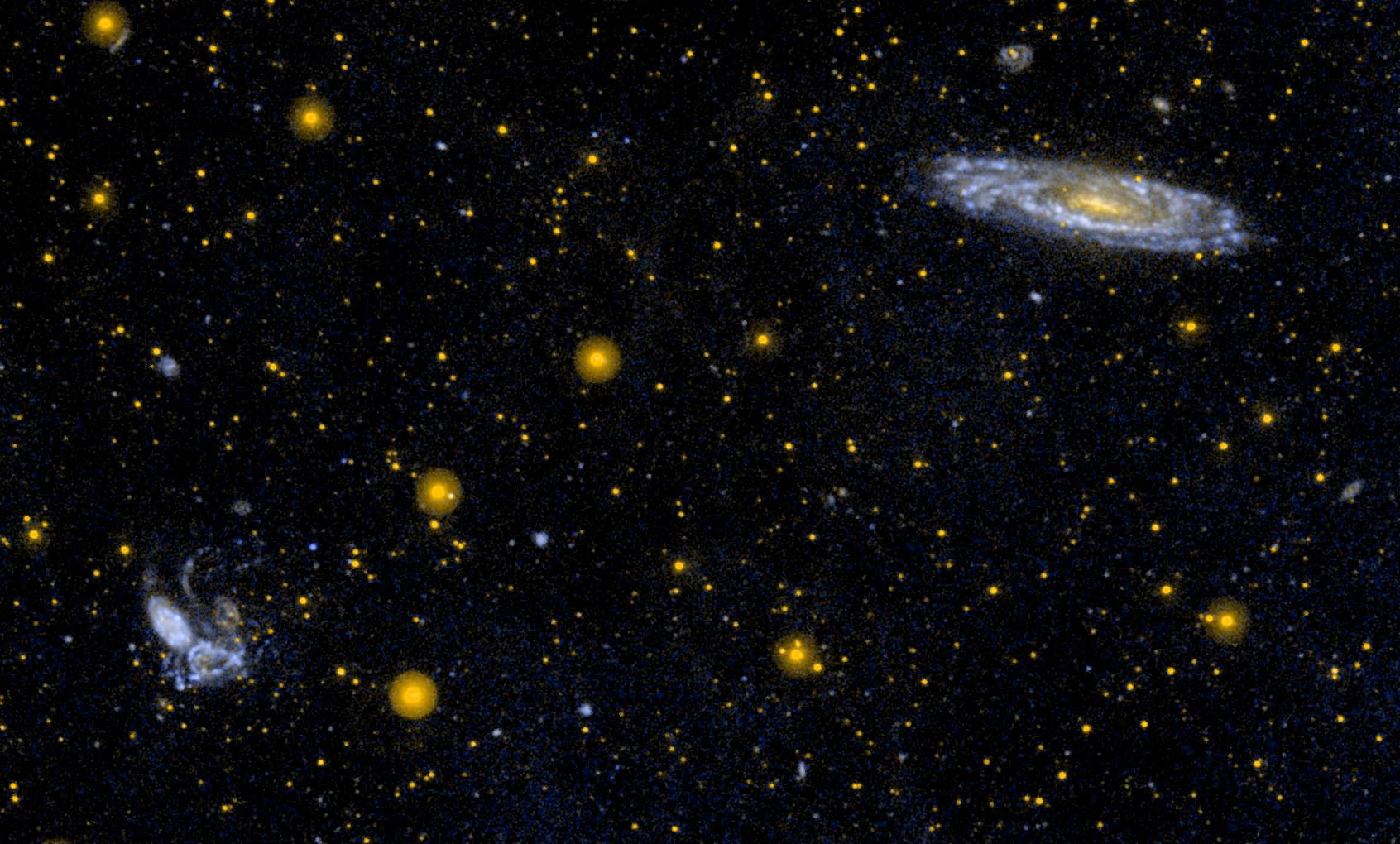 Ultraviolet image of the interacting group of galaxies known as Stephan's Quintet (NGC7317, NGC7318A, NGC7318B, NGC7319, NGC7320, lower left). Of the five galaxies in this tightly packed group, NGC7320 (the large spiral in the group) is probably a foreground galaxy and not associated with the other four. The spiral galaxy in the upper right is NGC 7331.